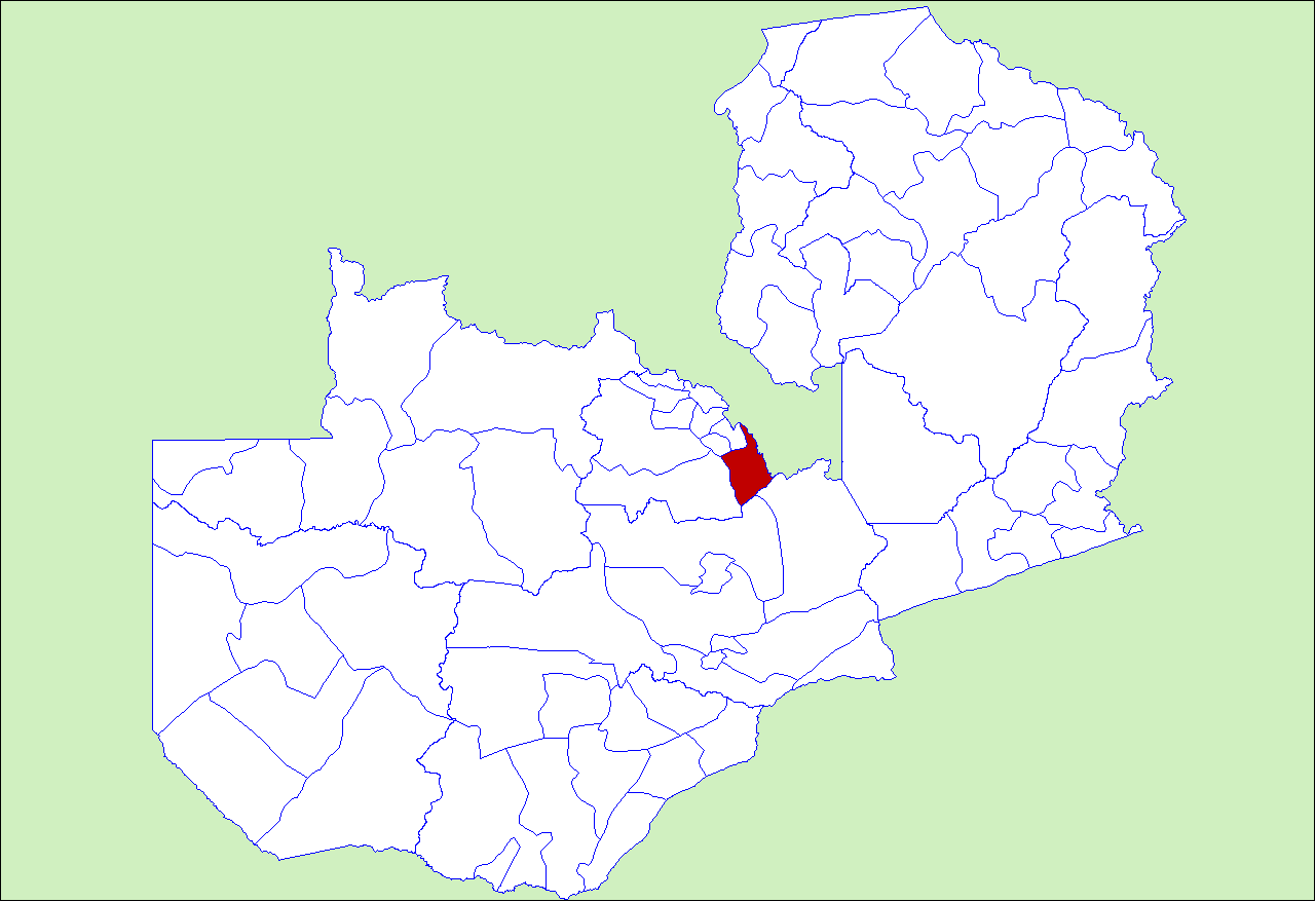 District locator in Zambia